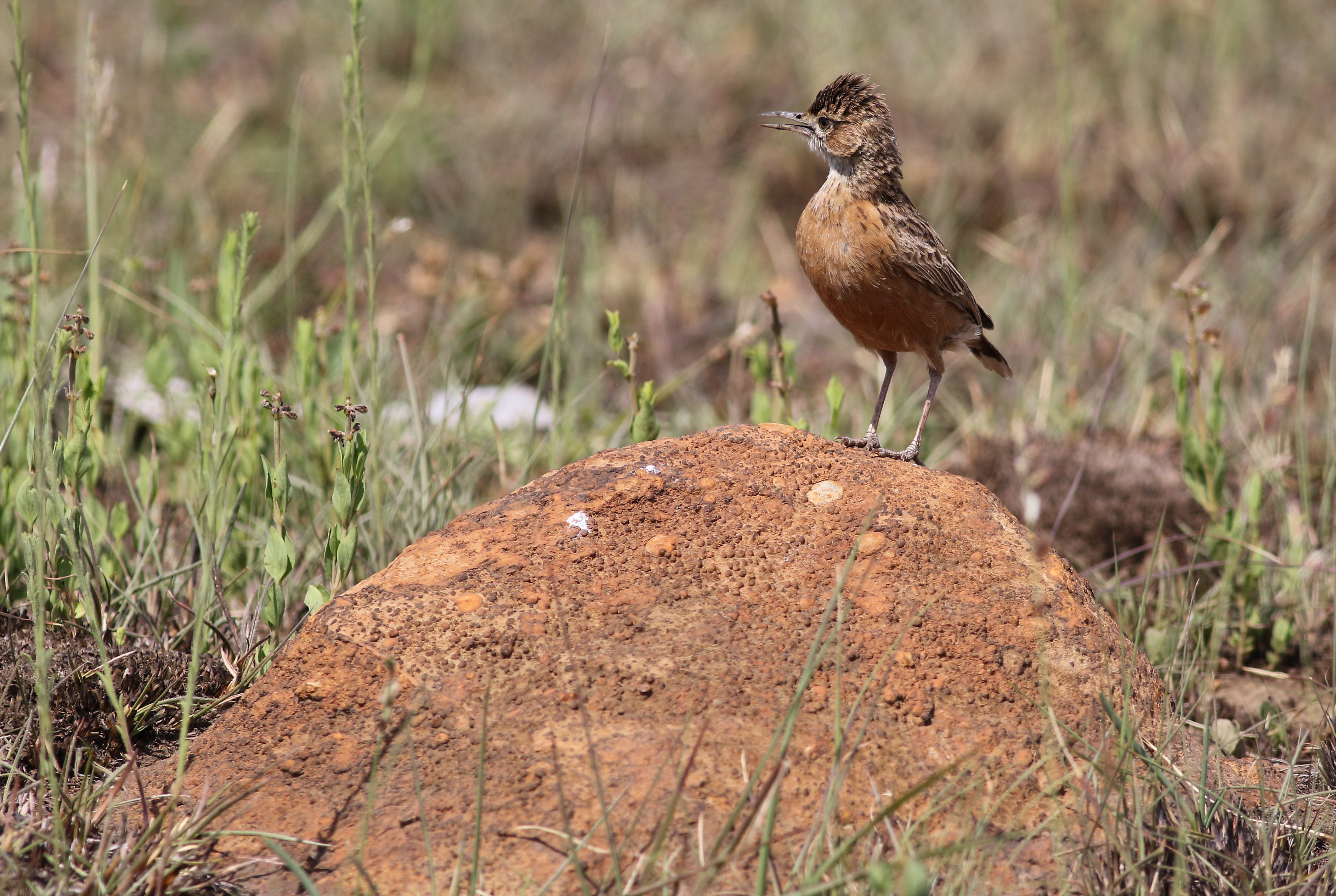 Spike-heeled lark, Chersomanes albofasciata, at Suikerbosrand Nature Reserve, Gauteng, South Africa